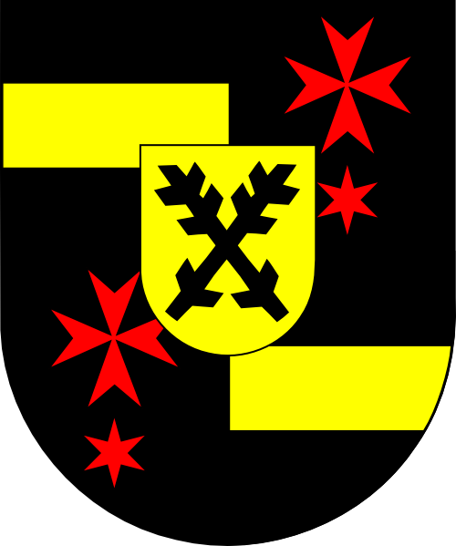 Coat of arms (shield only) of Zbyněk Berka z Dubé a z Lipé, archbishop of Prague (1593 - 1606).